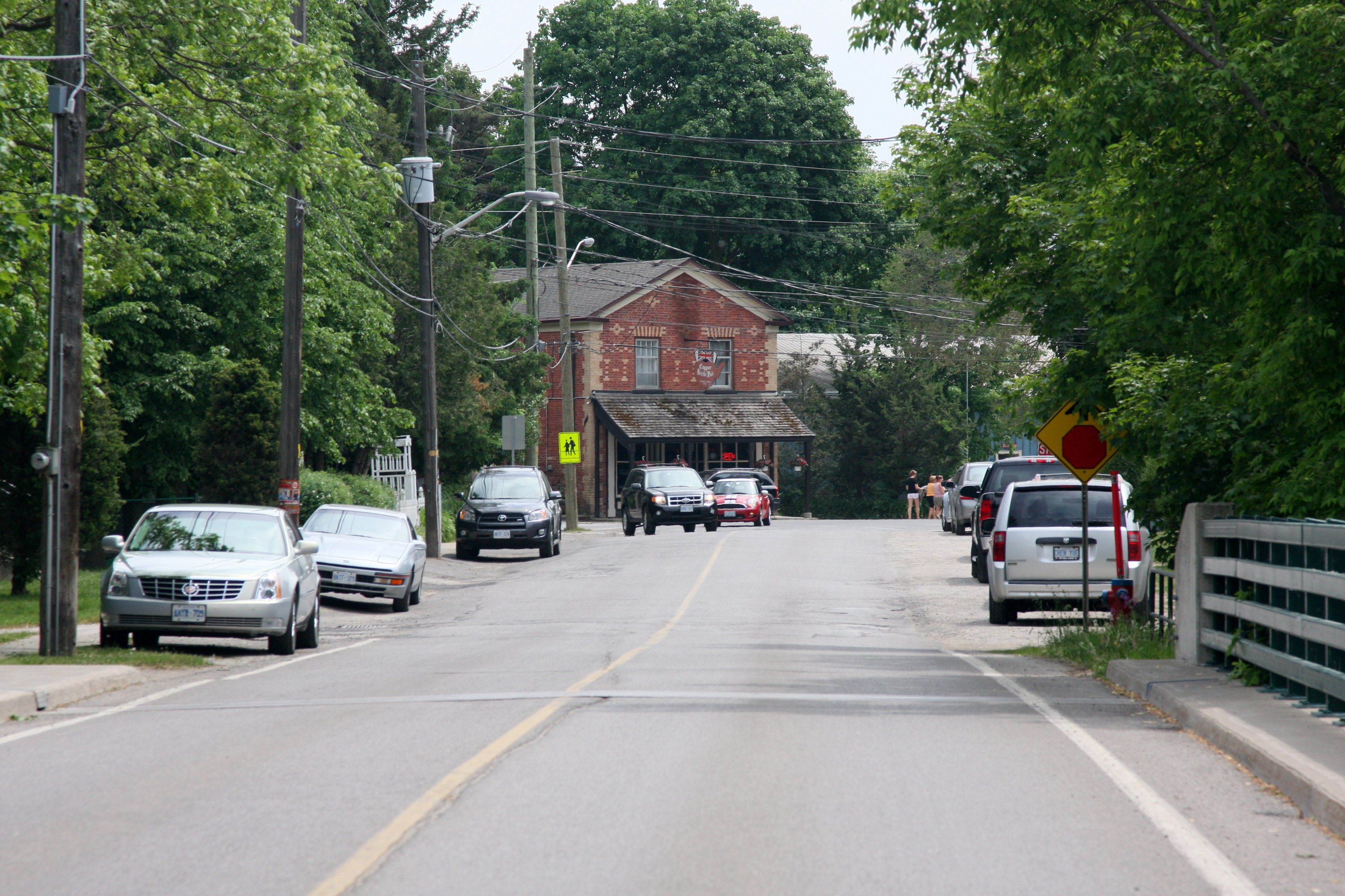 The Main Street of Glen Williams, Ontario, Canada. Photo taken in May of 2012.